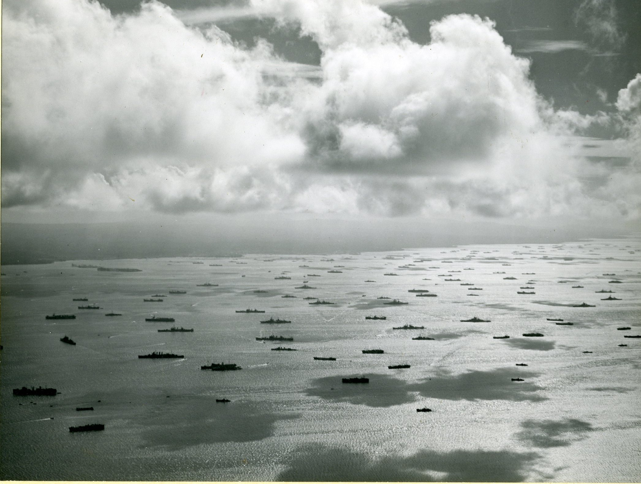 Aerial view of the Allied invasion fleet for the invasion of Leyte, Philippines, in Seeadler Harbor on 6 October 1944. The Royal Australian Navy heavy cruiser HMAS Australia (D84) is visible in the left foreground.